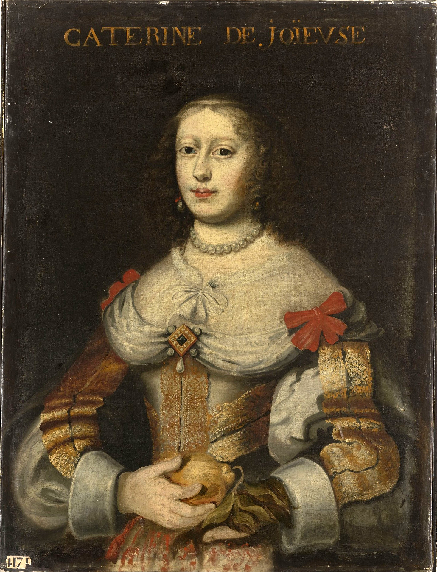 Portrait of Henriette Catherine de Joyeuse, duchess of Montpensier, and later duchess of Guise